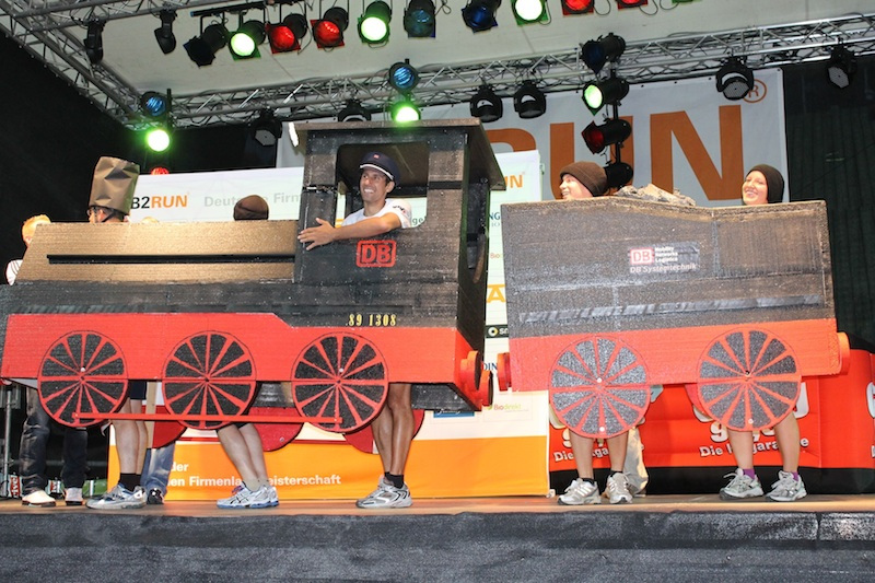 Deutsche Bahn Winner 2011 "Die Originellsten"